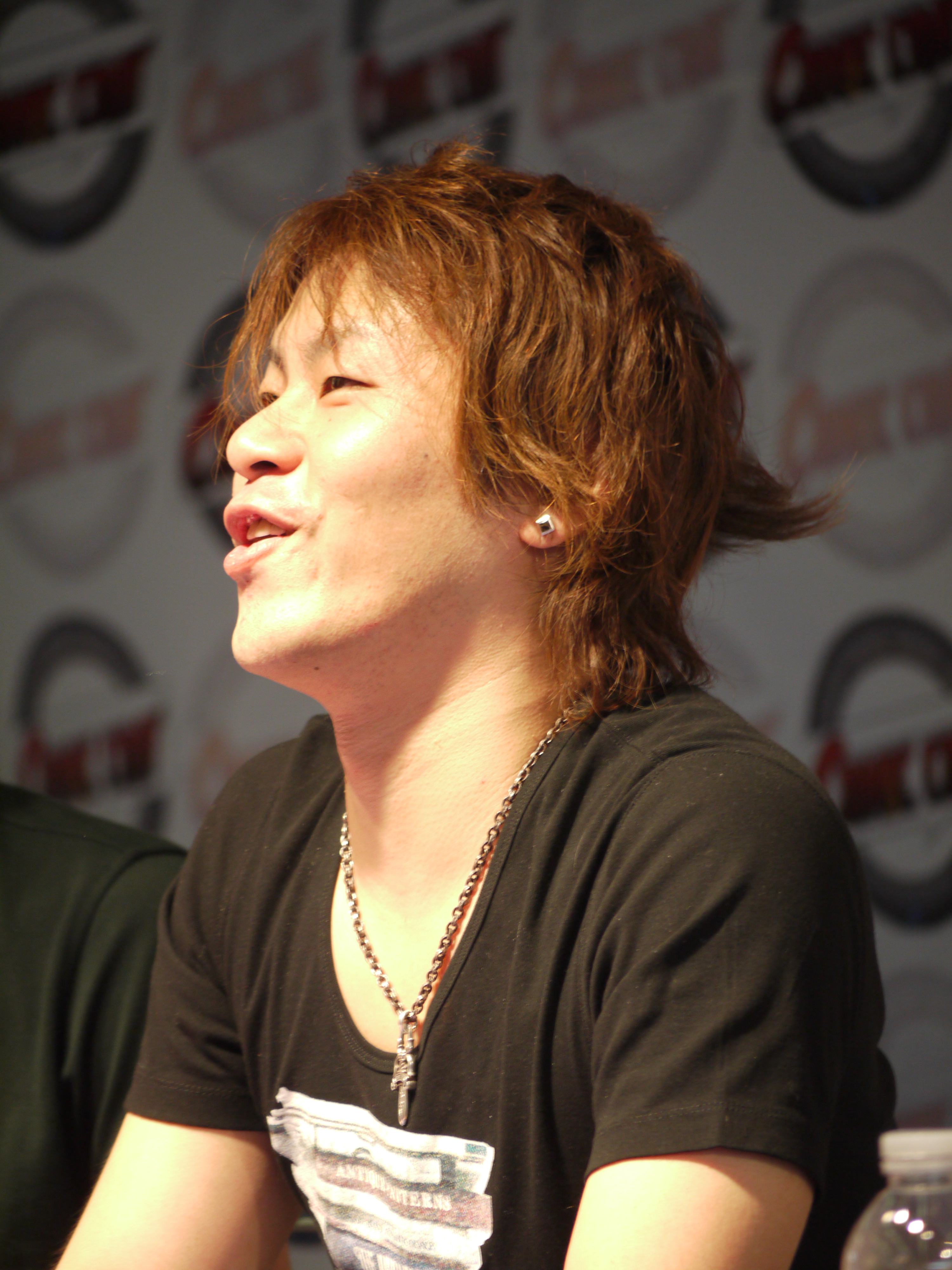 Japan Expo Festival, 11th impact